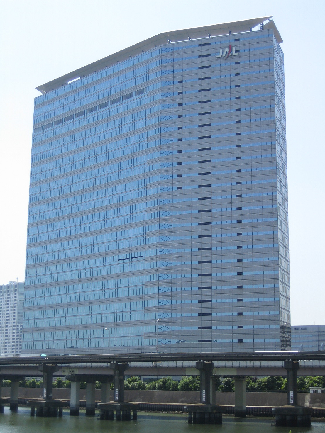 Nomura Fudosan Tennozu Building - Japan Airlines International Headquarters in Shinagawa, Tokyo - Includes offices of JALways and JAL Express - Formerly had Japan Asia Airways offices